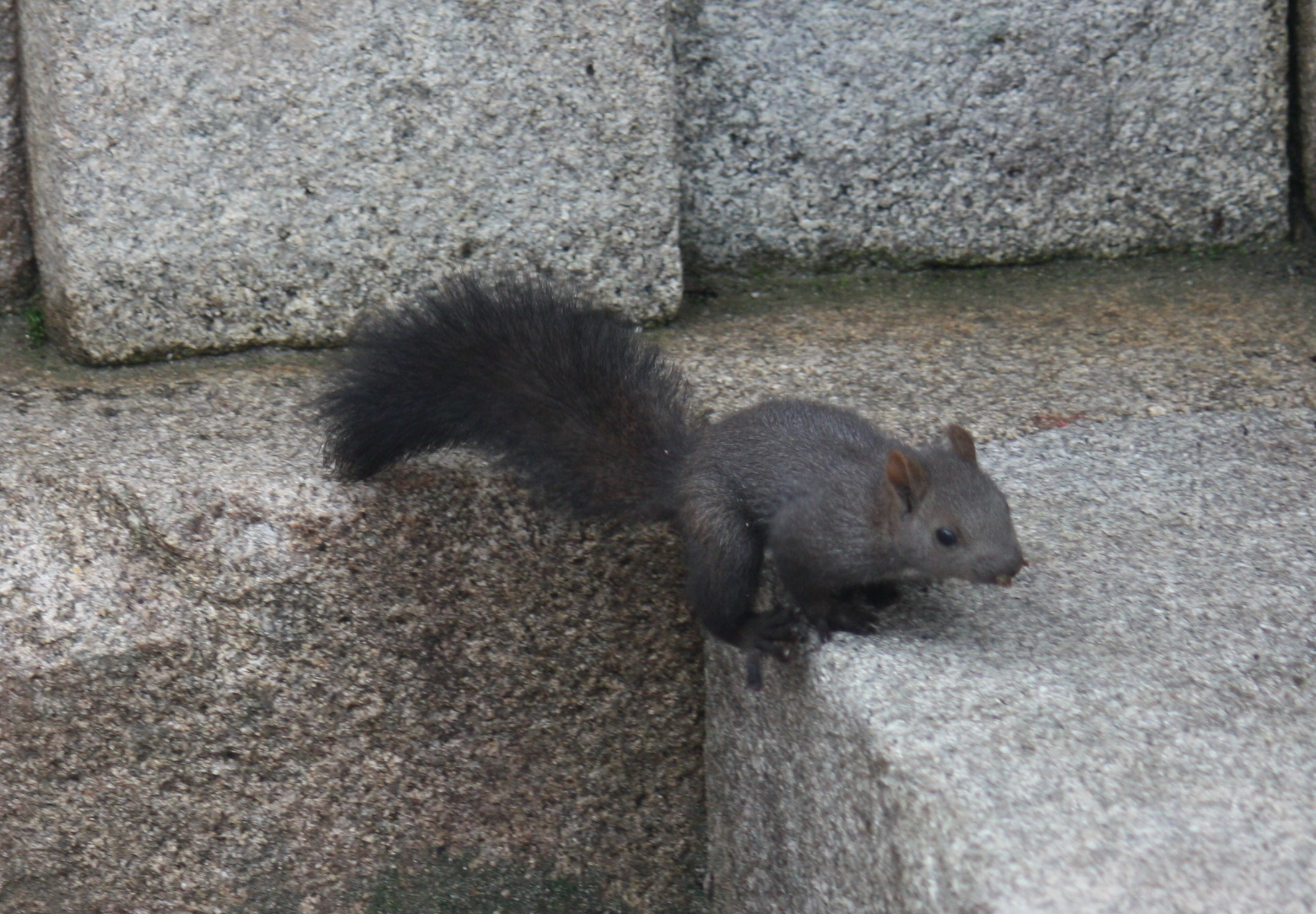 A squirrel in in Gyeongju, South Korea